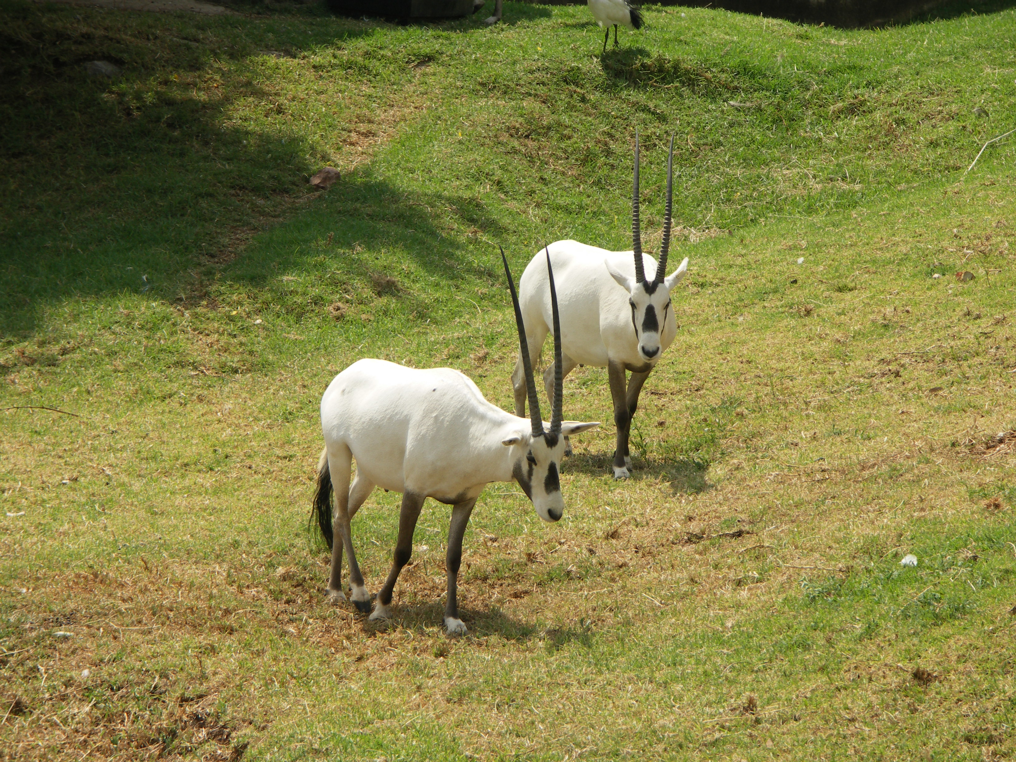 White/Arabian Oryx (Oryx leucoryx) at the Johannesburg Zoo, Gauteng, South Africa